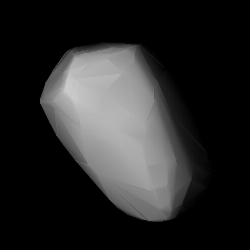 3D convex shape model of 891 Gunhild, computed using light curve inversion techniques. J. Hanuš, J. Ďurech, M. Brož, B. D. Warner (June 2011). "A study of asteroid pole-latitude distribution based on an extended set of shape models derived by the lightcurve inversion method". Astronomy and Astrophysics 530: A134. ISSN 0004-6361. arXiv